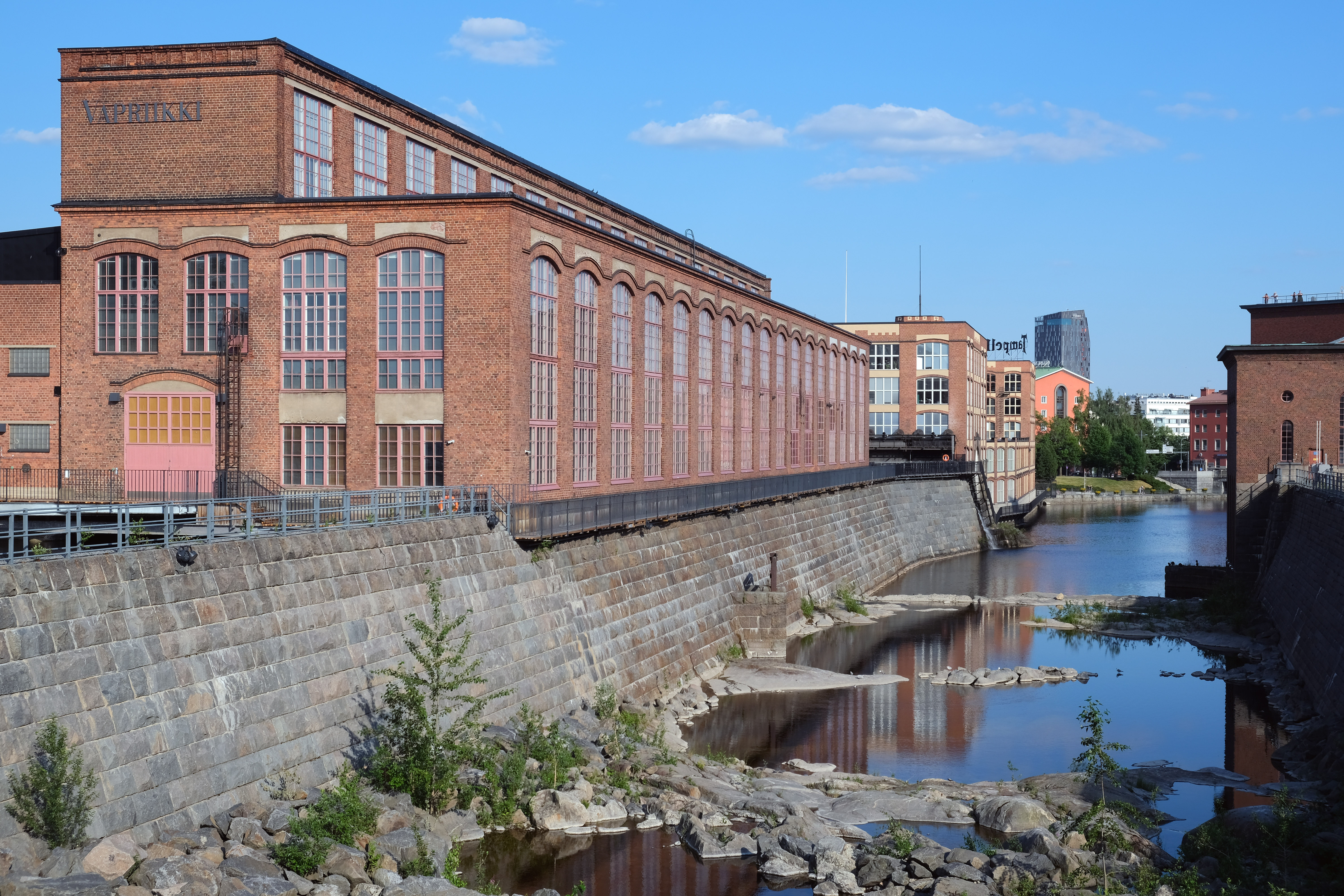 View from Palatsinraitti Bridge, Tampere: Vapriikki and Tammerkoski.